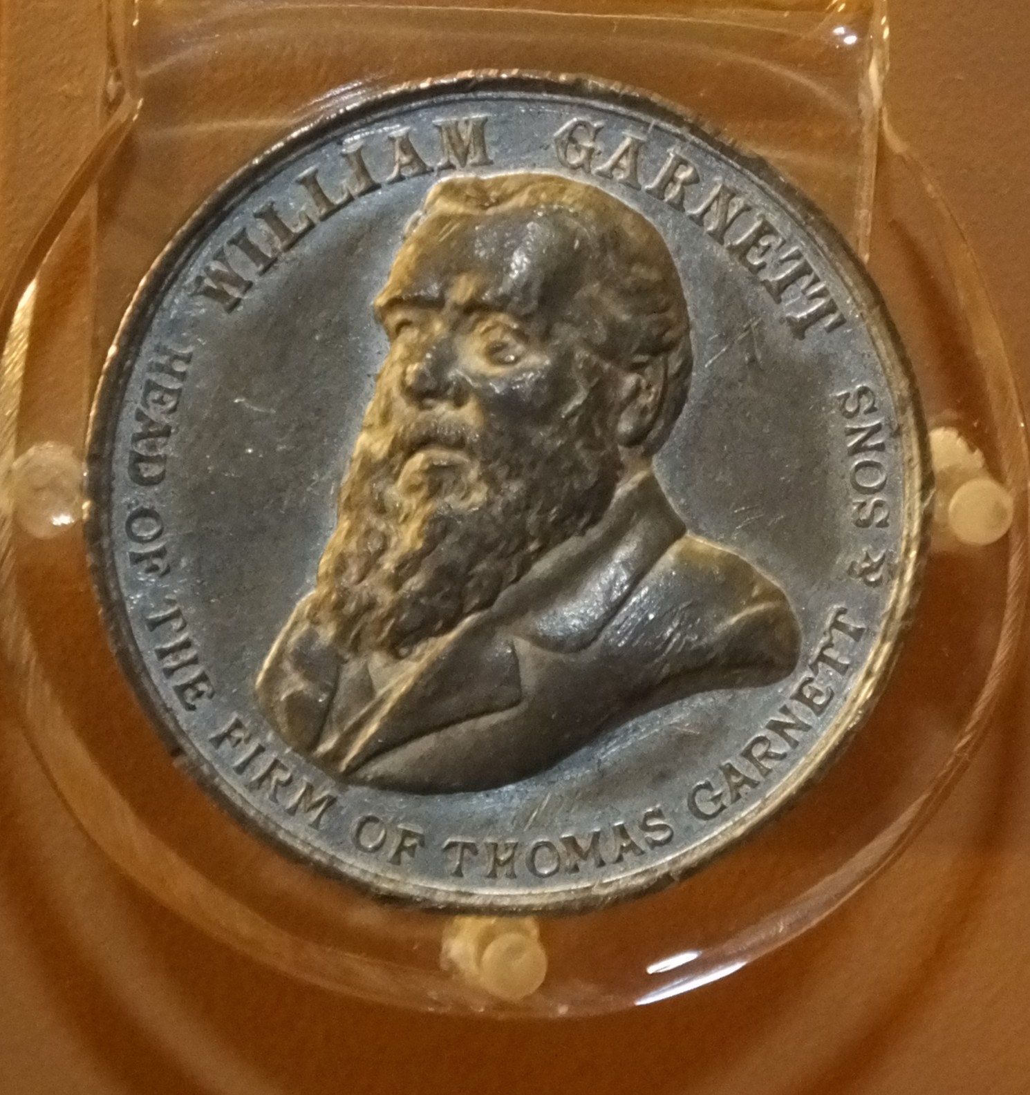 Wikimedia editathon at Clitheroe Castle Museum.